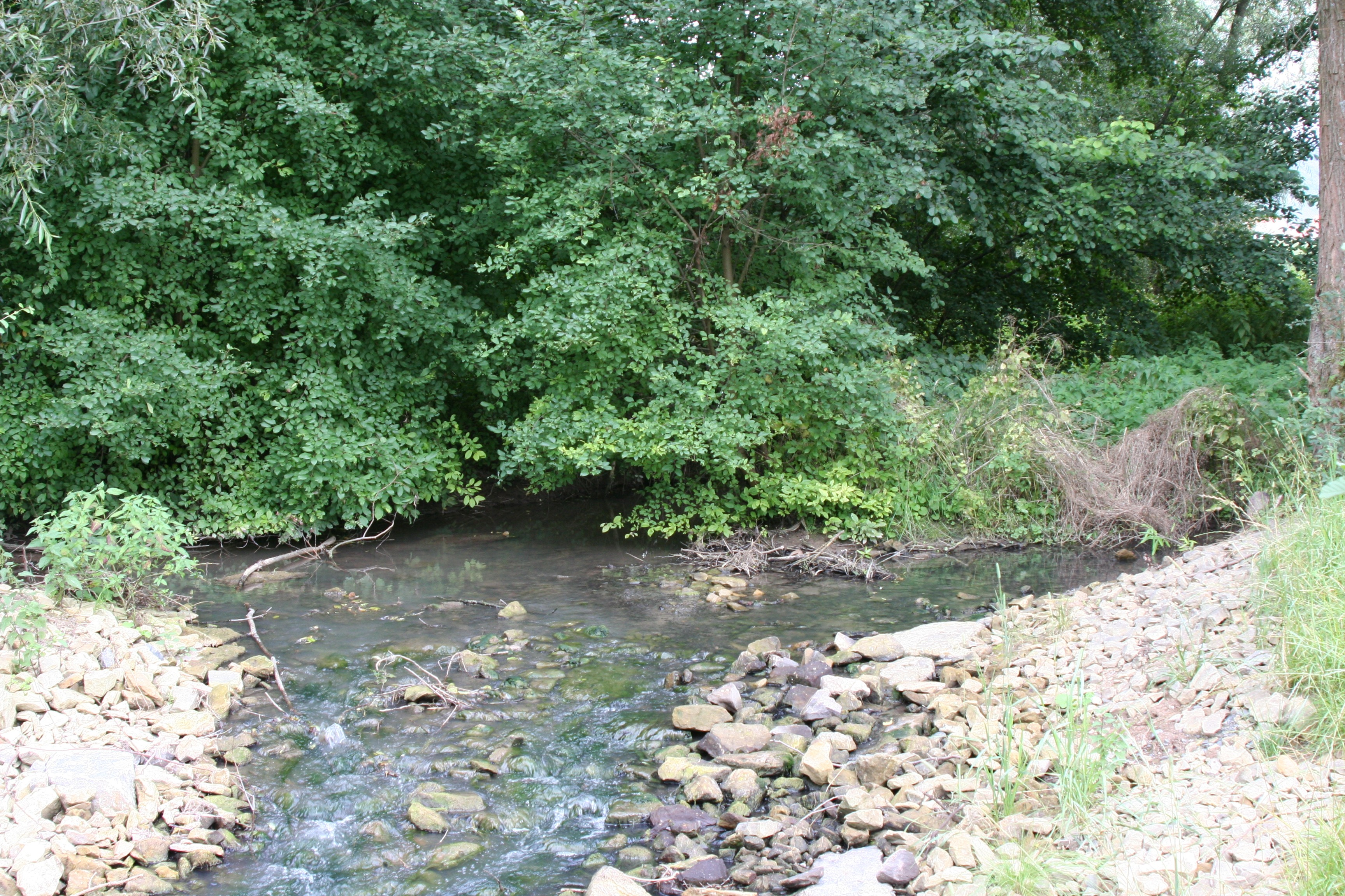 Intersection of the mill canal (from the right) of the mill in Obersulm-Affaltrach with the Sulm tributary Schlierbach (from the background) and joined continuation into the foreground. On the left the mill canal continues for a few metres before its water is led into the Schlierbach as well. The rest of the mill canal is not used anymore.